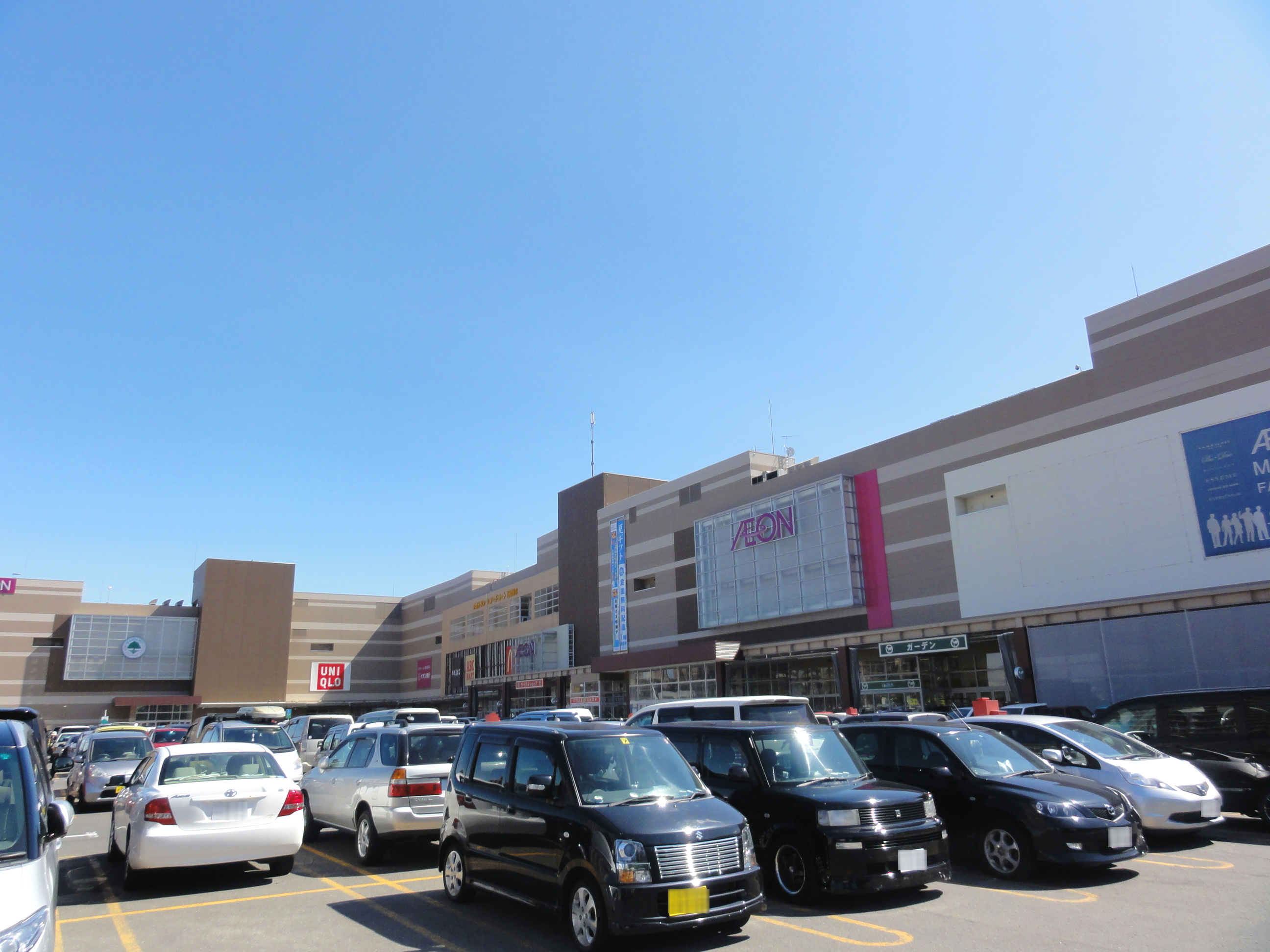 AEON MALL Sapporo Hassamu Nishi-ku, Sapporo, Hokkaidō)